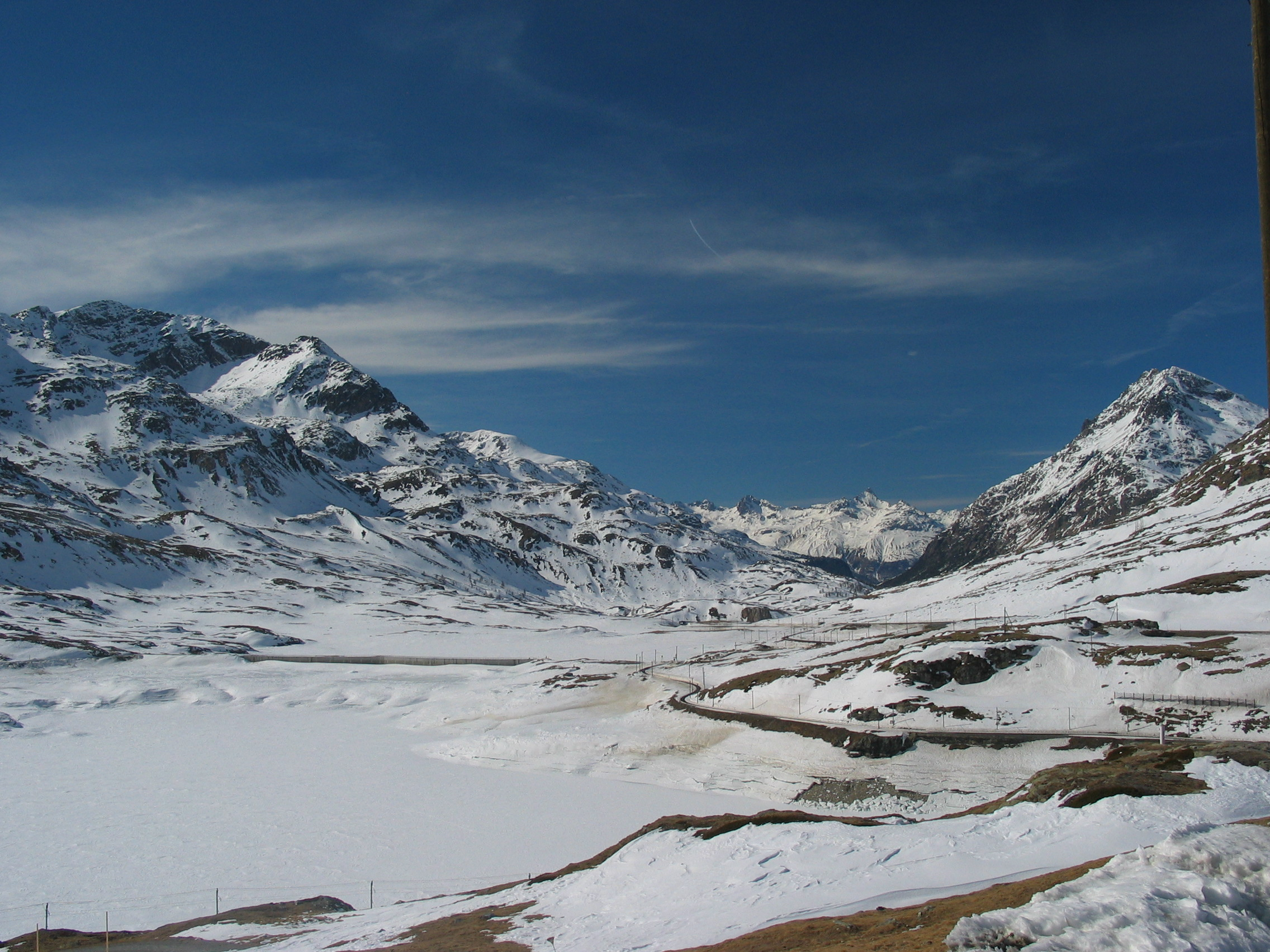 Looking back on Bernina pass road from Ospizio Bernina, Switzerland.